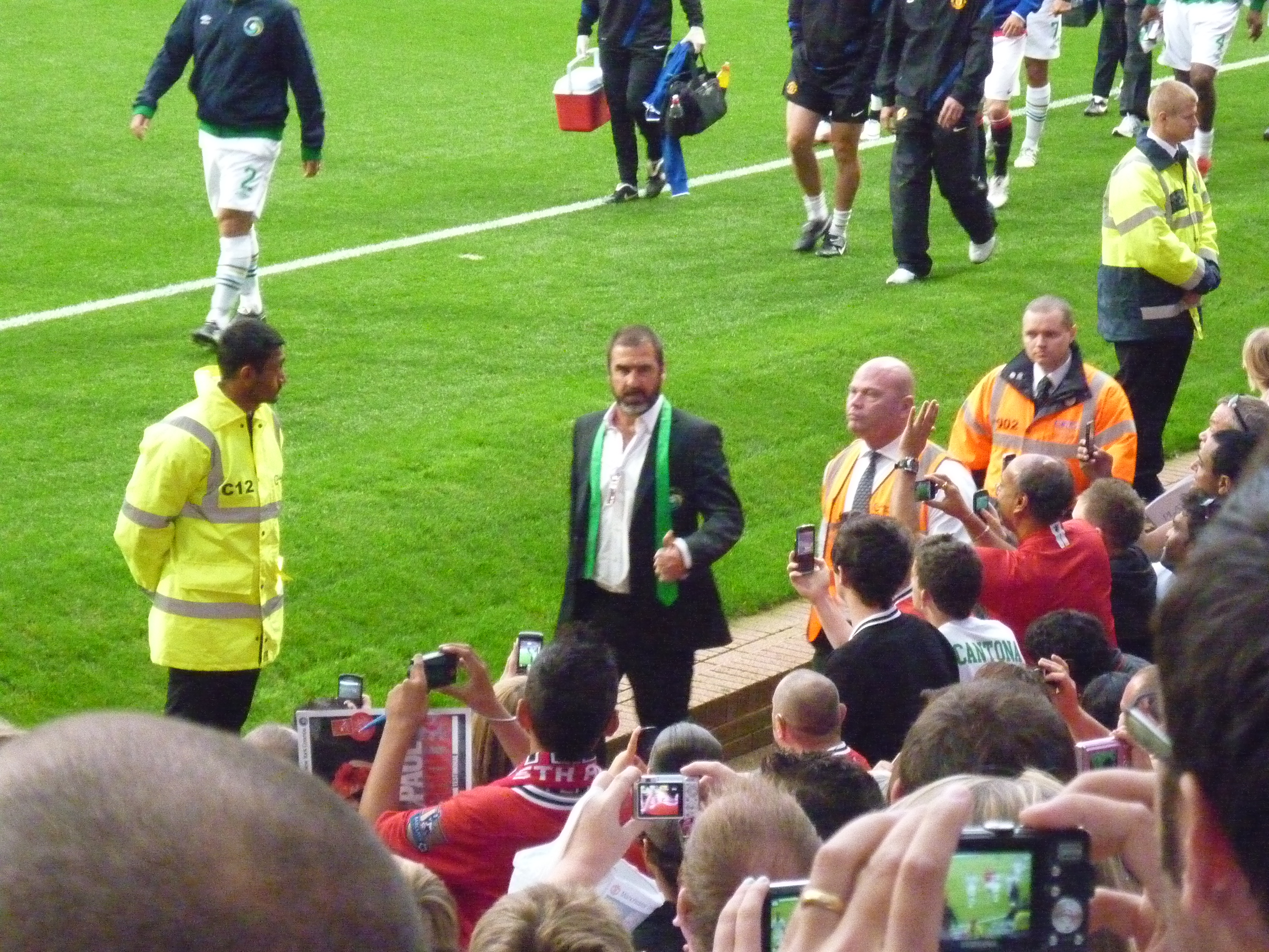 Eric Cantona, New York Cosmos director of soccer, at Old Trafford for his team's game against Manchester United for Paul Scholes's testimonial match